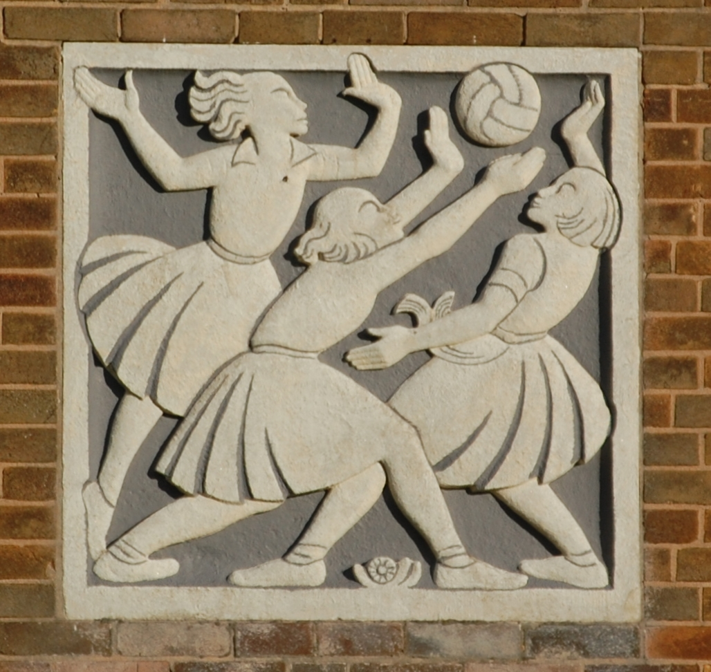 Relief carving at Great Barr School, on Aldridge Road, Great Barr, Birmingham, England, showing girls playing netball. An adjacent piece shows boys playing football.